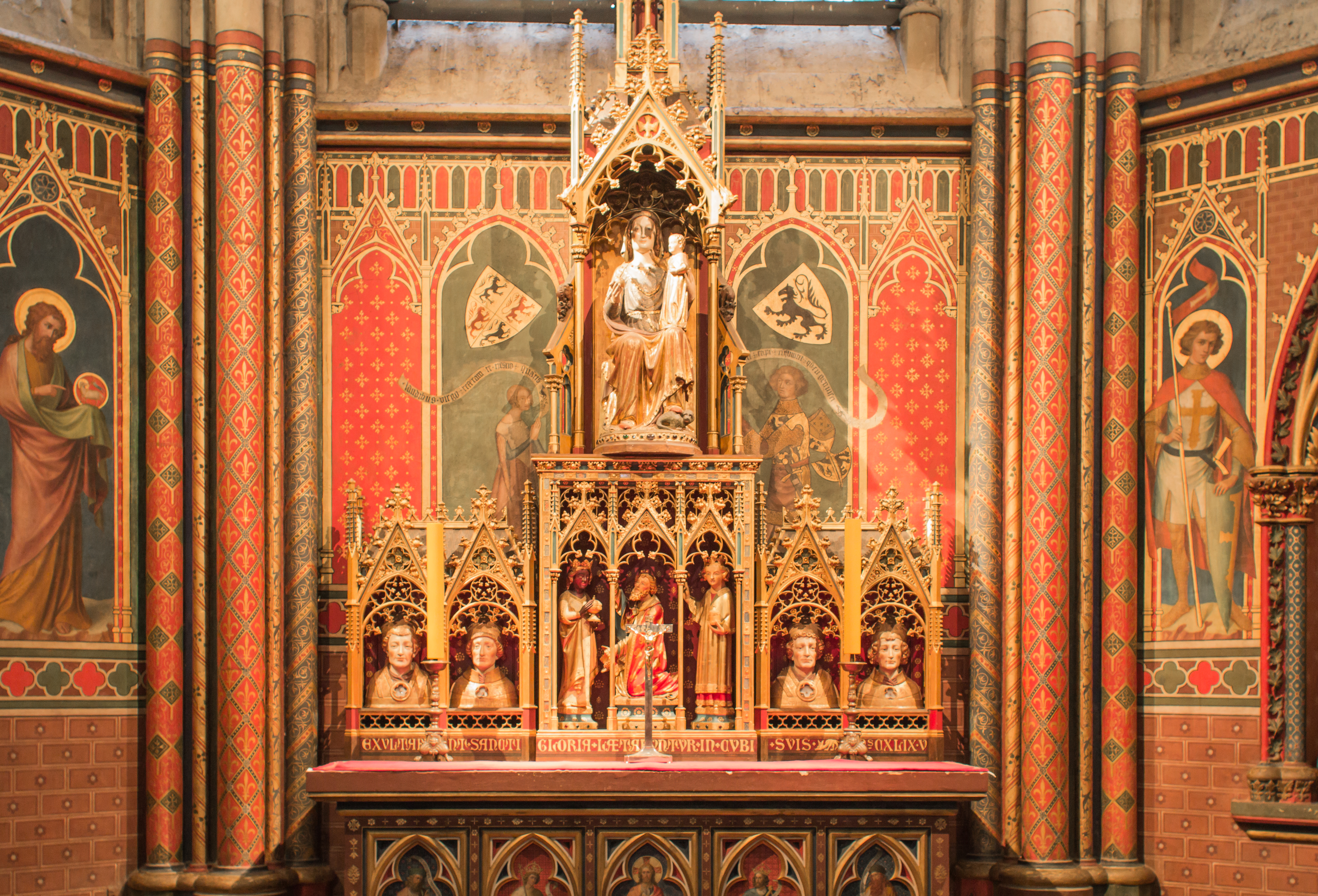 Axis Chapel (Chapel of the Three Kings) of the Cologne Cathedral, with "Füssenicher Madonna" Statue of the Madonna with Child